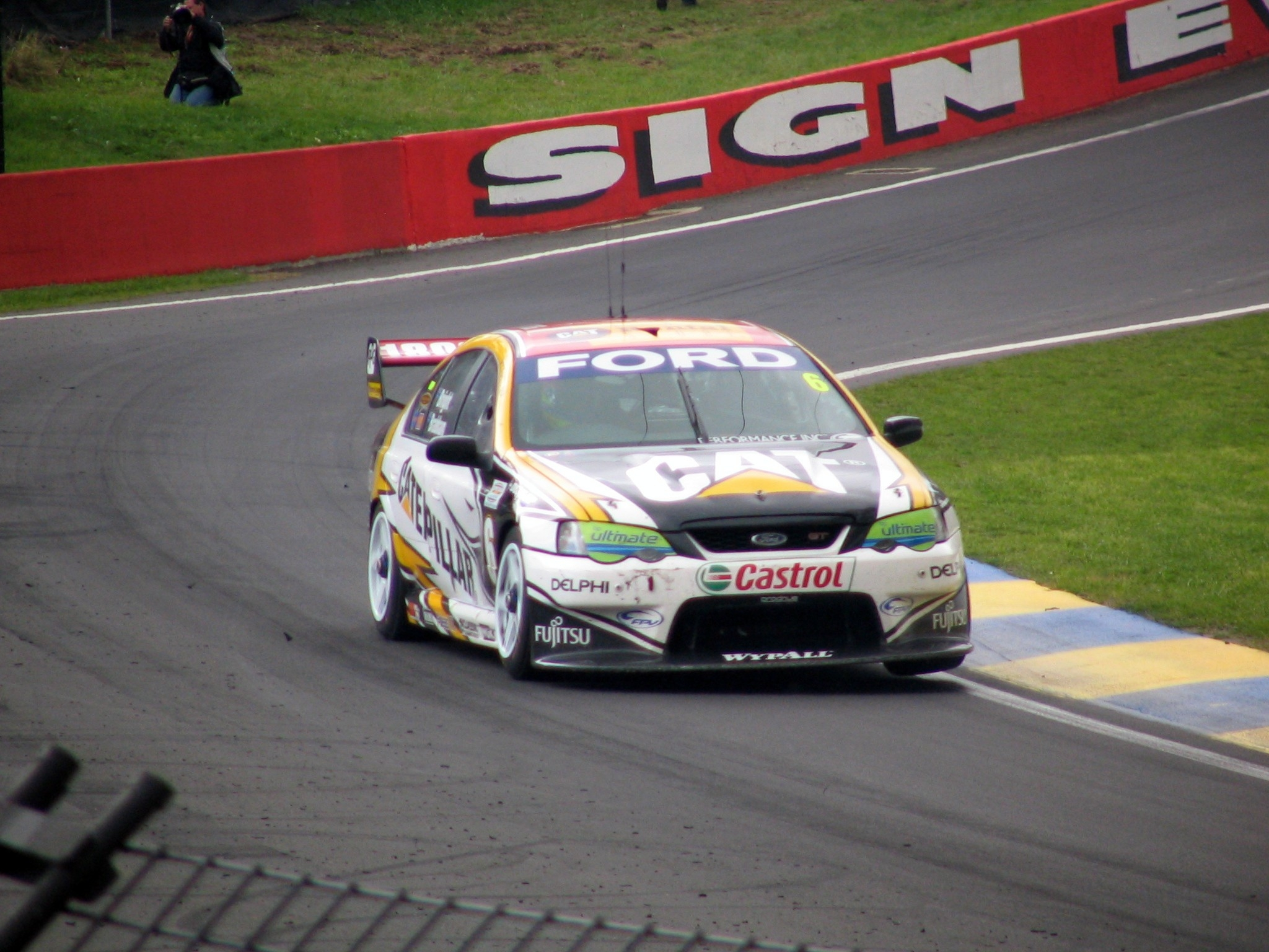 The Ford Performance Racing Ford BA Falcon of Jason Bright and David Brabham at the 2005 Super Cheap Auto 1000, Mount Panorama Circuit, Bathurst, New South Wales, Australia